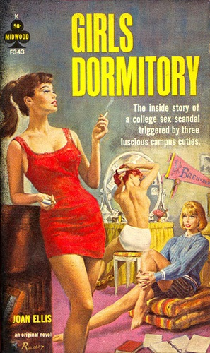 Cover of "Girls Dormitory" by Joan Ellis (Julie Ellis). Illustration by Paul Rader.